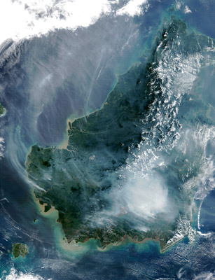 Satellite photo of the island of Borneo, August 19 2002, showing smoke from burning Peat swamp forests